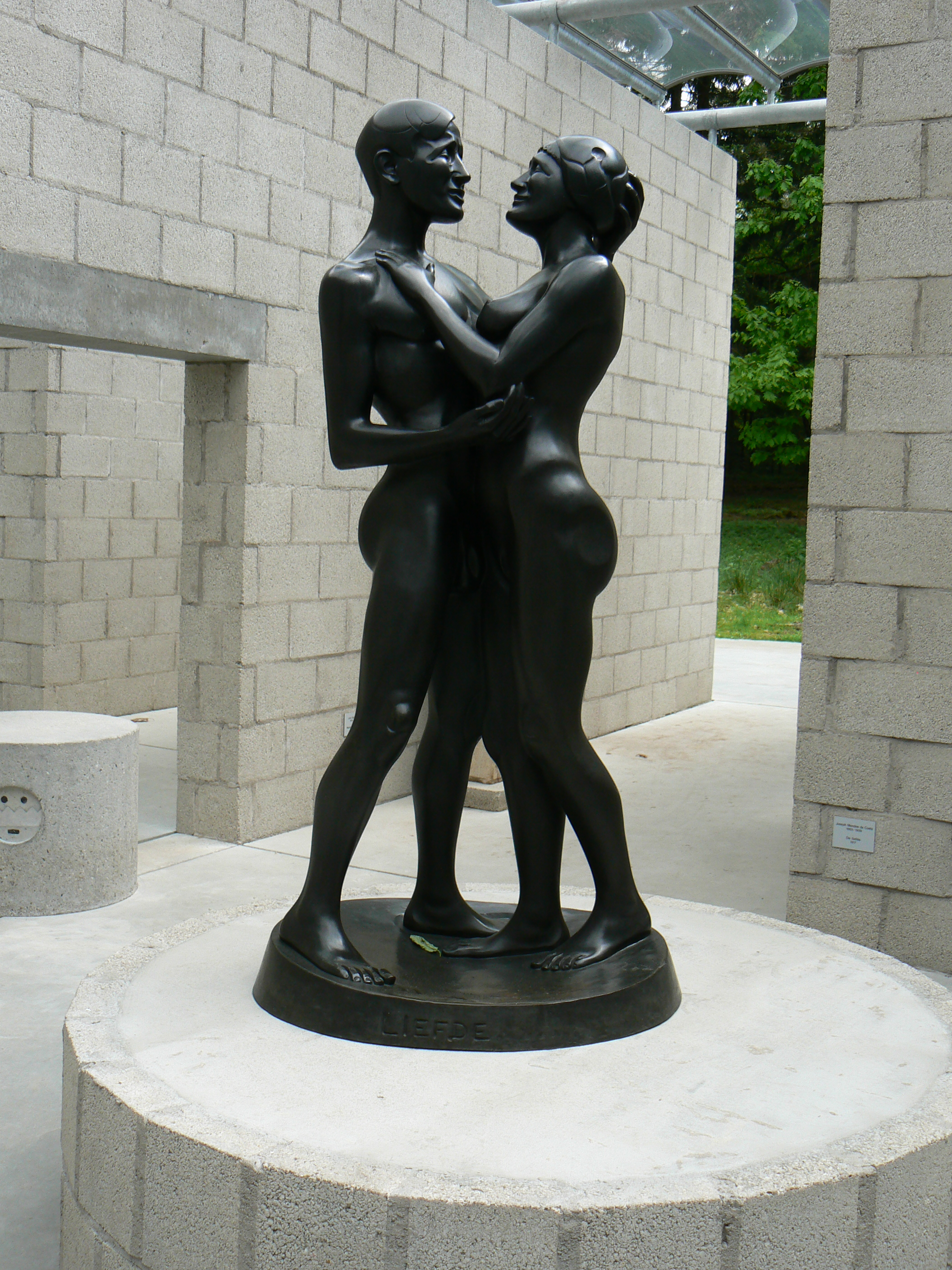 sculpture Liefde (1917) by Joseph Mendes da Costa in sculpturepark KMM/The Netherlands